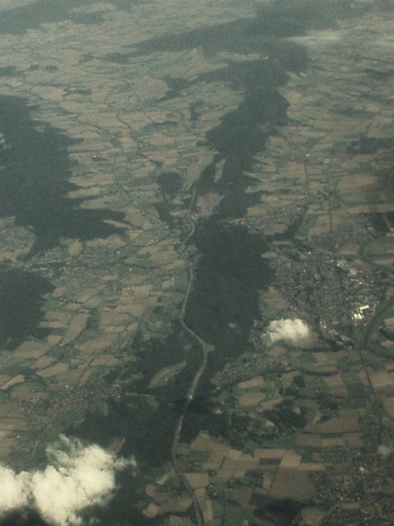 Aerial photograph of the Wesergebirge ridge, looking from the west. The forested crest of the approximately east-west trending ridge is well visible. The settlement in the foreground left (north) of the crest is Kleinenbremen (an administrative subdivision of Porta Westfalica) and the settlement somewhat further back is the town of Bad Eilsen. The forested area below (west of) Bad Eilsen at the left margin of the photo marks the Harrl hill. The forested area above (east of) Bad Eilsen at the left margin of the photo marks the Bückeberg ‘massif’. The settlement in the foreground right (south) of the crest of the Wesergebirge ridge is Eisbergen (another administrative subdivision of Porta Westfalica) and the settlement somewhat further back ist the town of Rinteln. Close to Rinteln at the right margin of the image two bends of the Weser river are fairly visible. Towards the background of the photo the transition from the approximately east-west trending Wesergebirge ridge to the southeast-northwest trending Süntel ‘massif’ is visible. The forested area in the top left corner represents the Deister ‘massif’. In the foreground the Autobahn A2 is obliquely crossing the the crest of the Wesergebirge ridge. From the left to the right (north to the south) the border between North Rhine Westphalia and Lower Saxony is meandering across the photo. It runs between the two subdivisions of Porta Westfalica and the towns of Bad Eilsen and Rinteln, respectively.